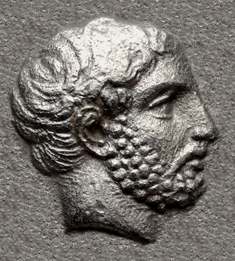 Hekatomnos